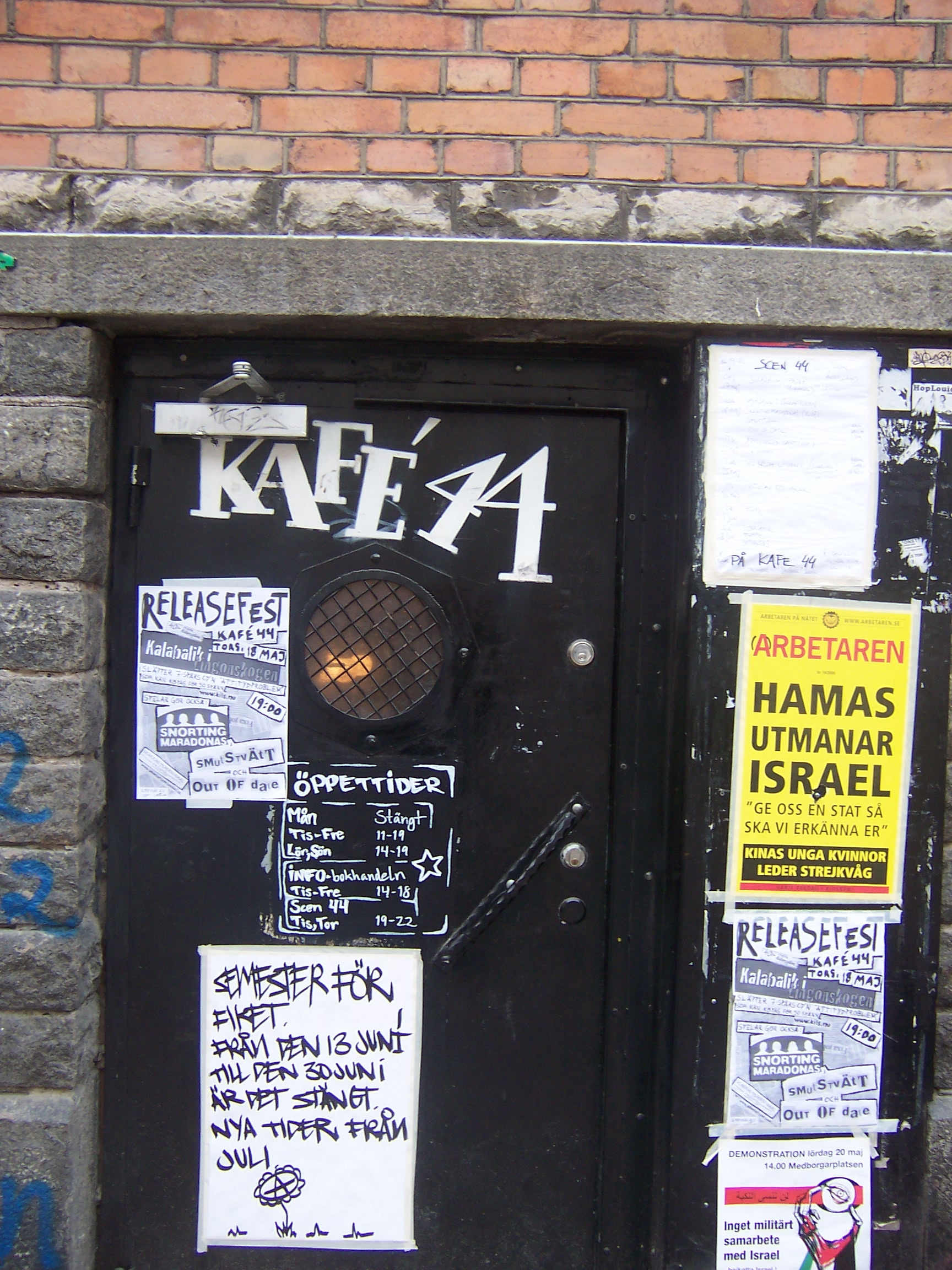 The door to Kafé 44.